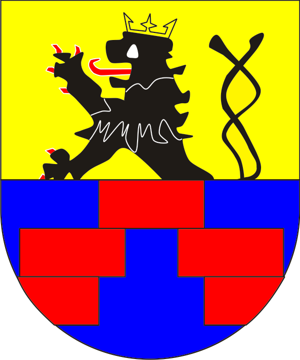 coats of arms of the principality of Rügen